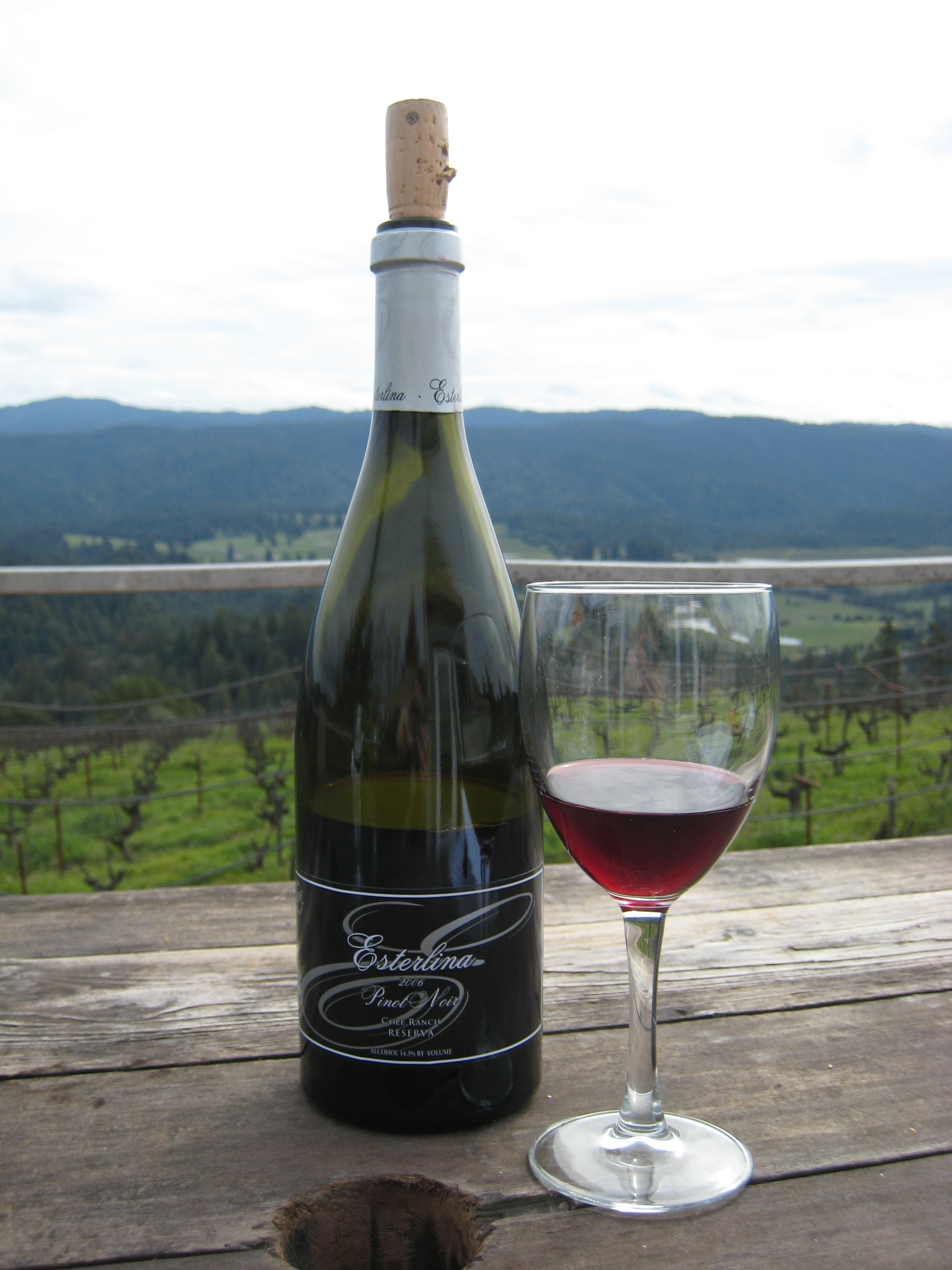 From Esterlina Tasting Room in Mendocino County California.